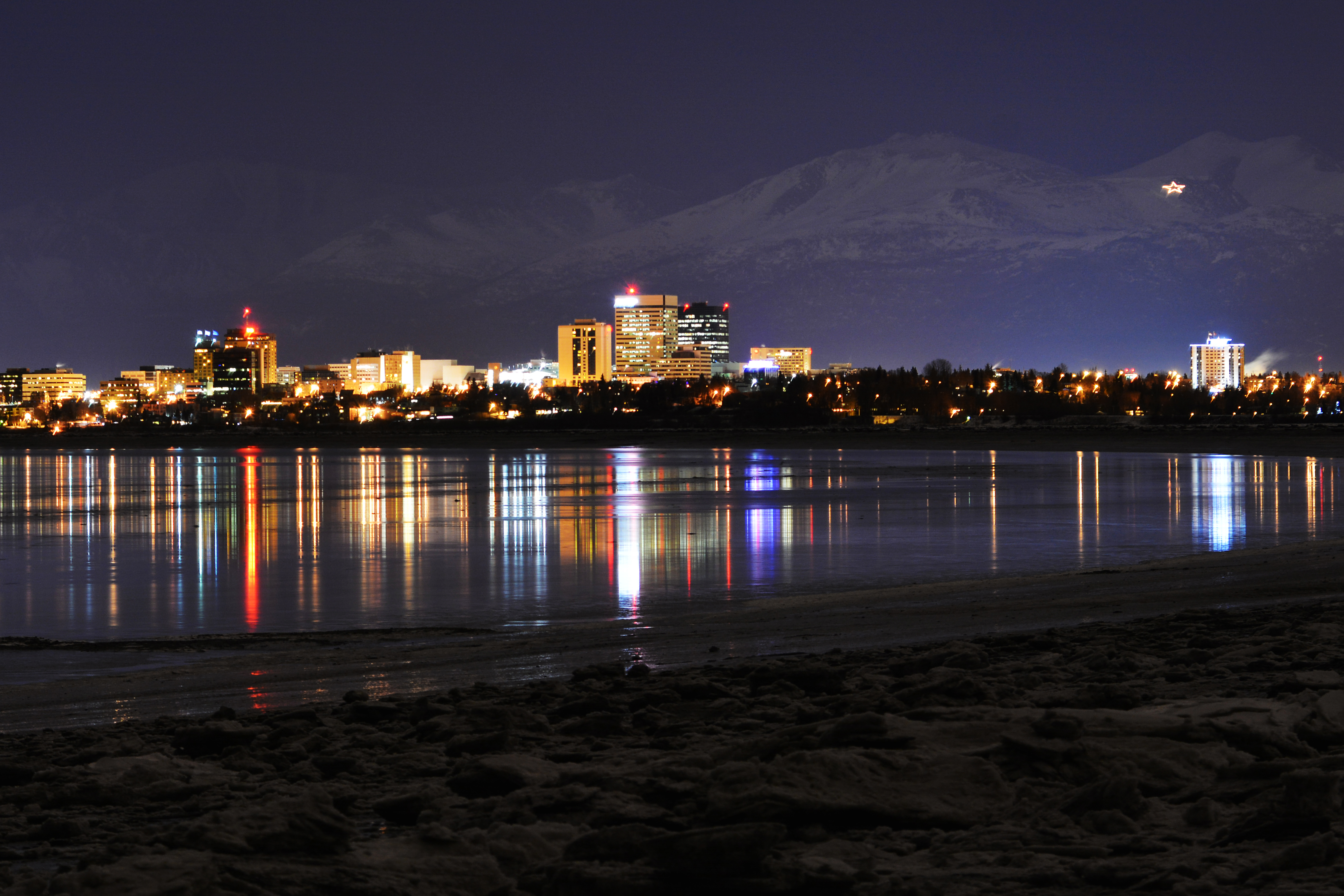 A nighttime telephoto shot of downtown Anchorage, Alaska